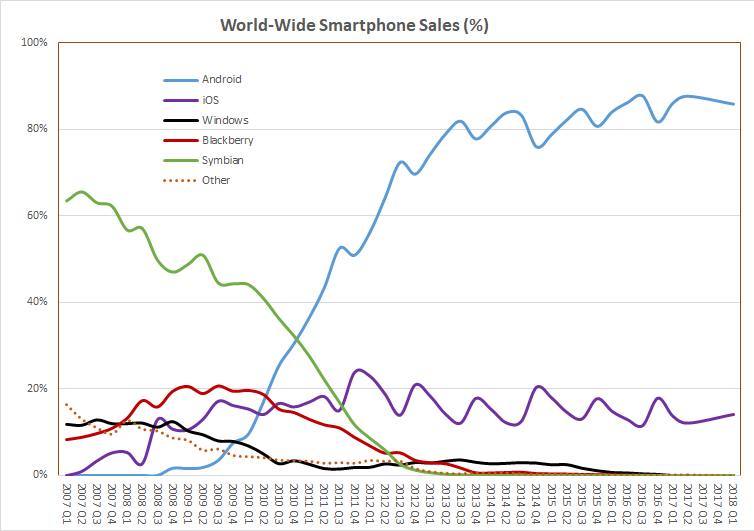 Based on Gartner actuals